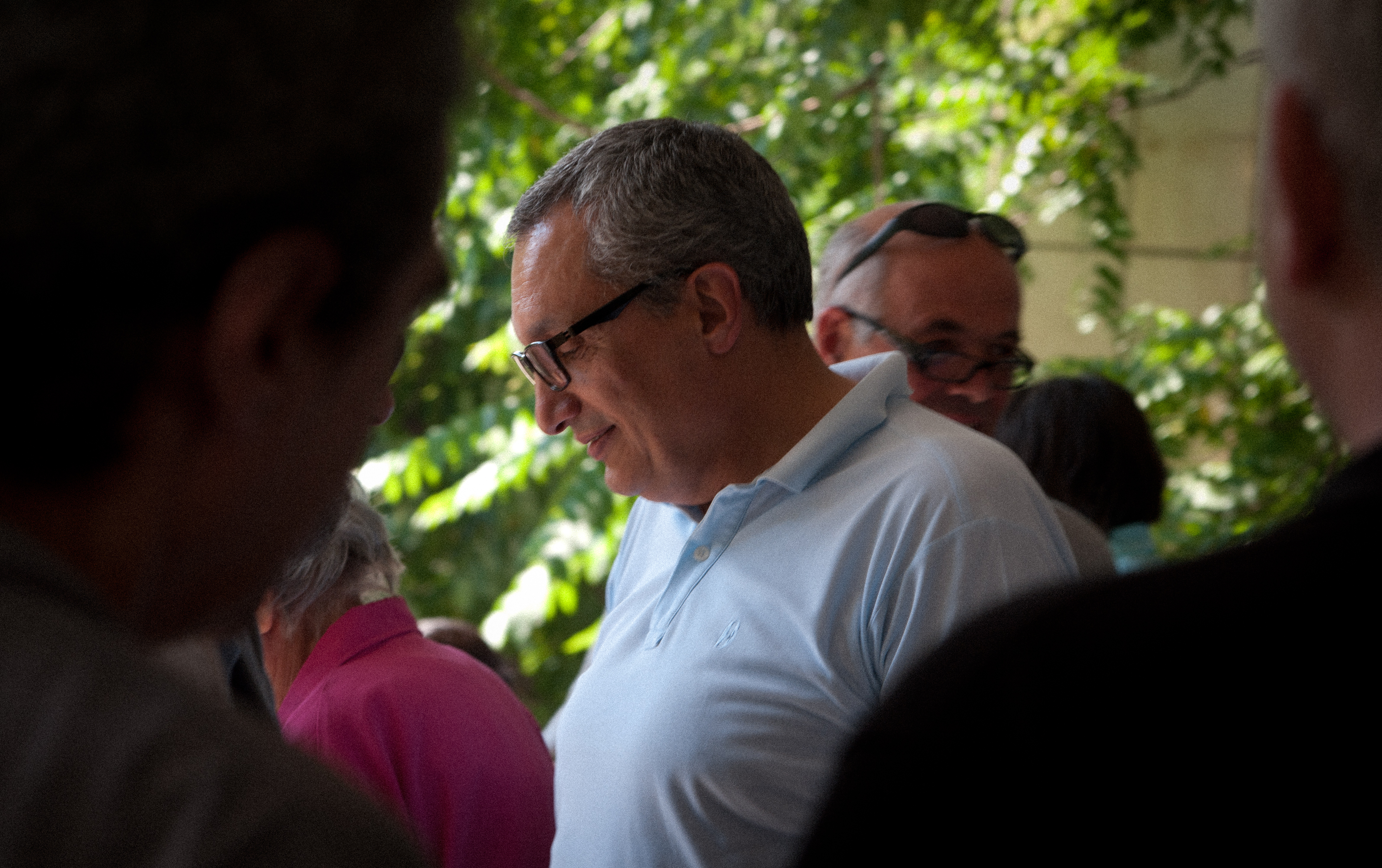 Leader of Democrats for a Strong Bulgaria Ivan Kostov.